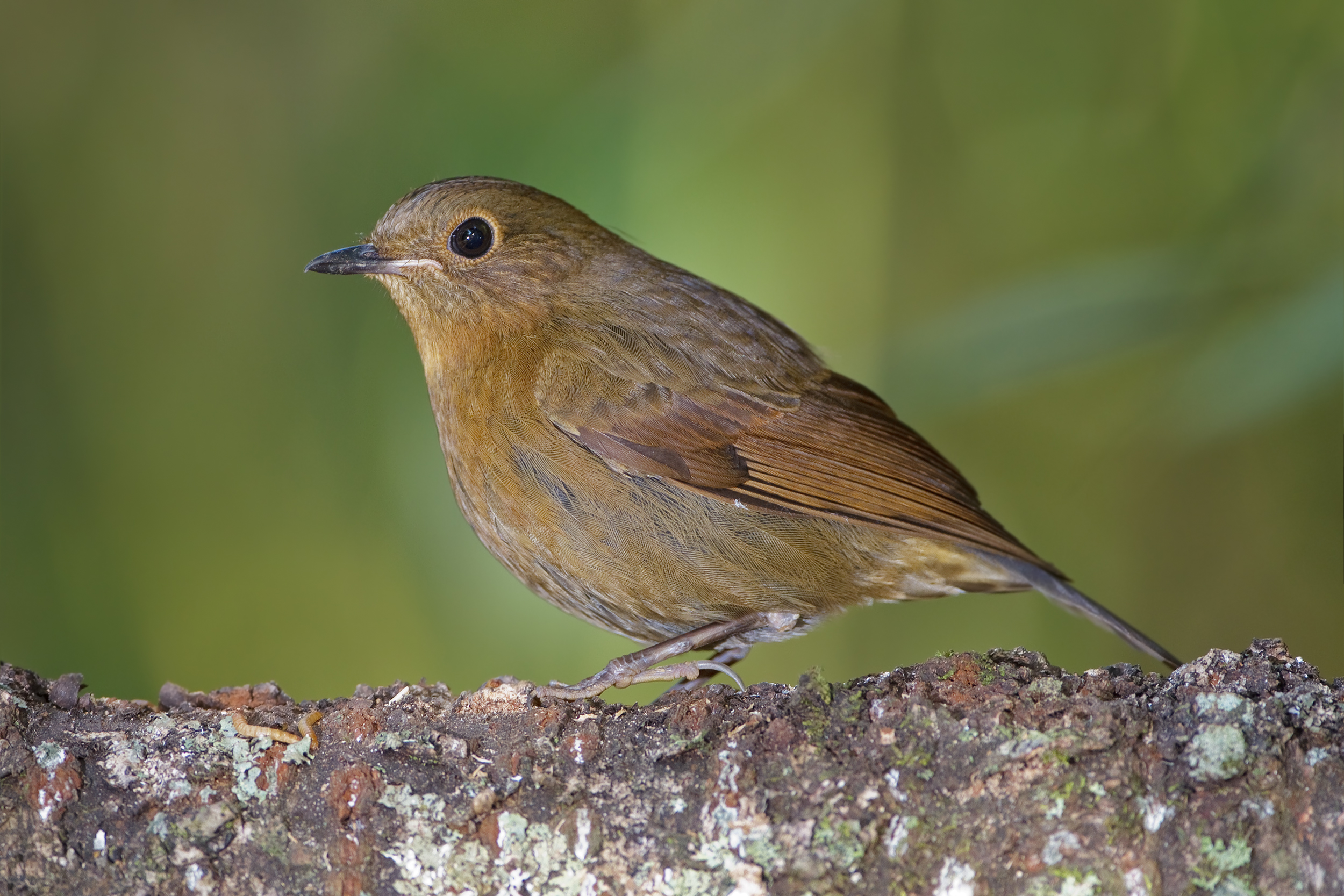 White-tailed Robin (Cinclidium leucurum) female, Royal Agricultural Station, Ang Khang, Mon Pin, Chiang Mai, Thailand